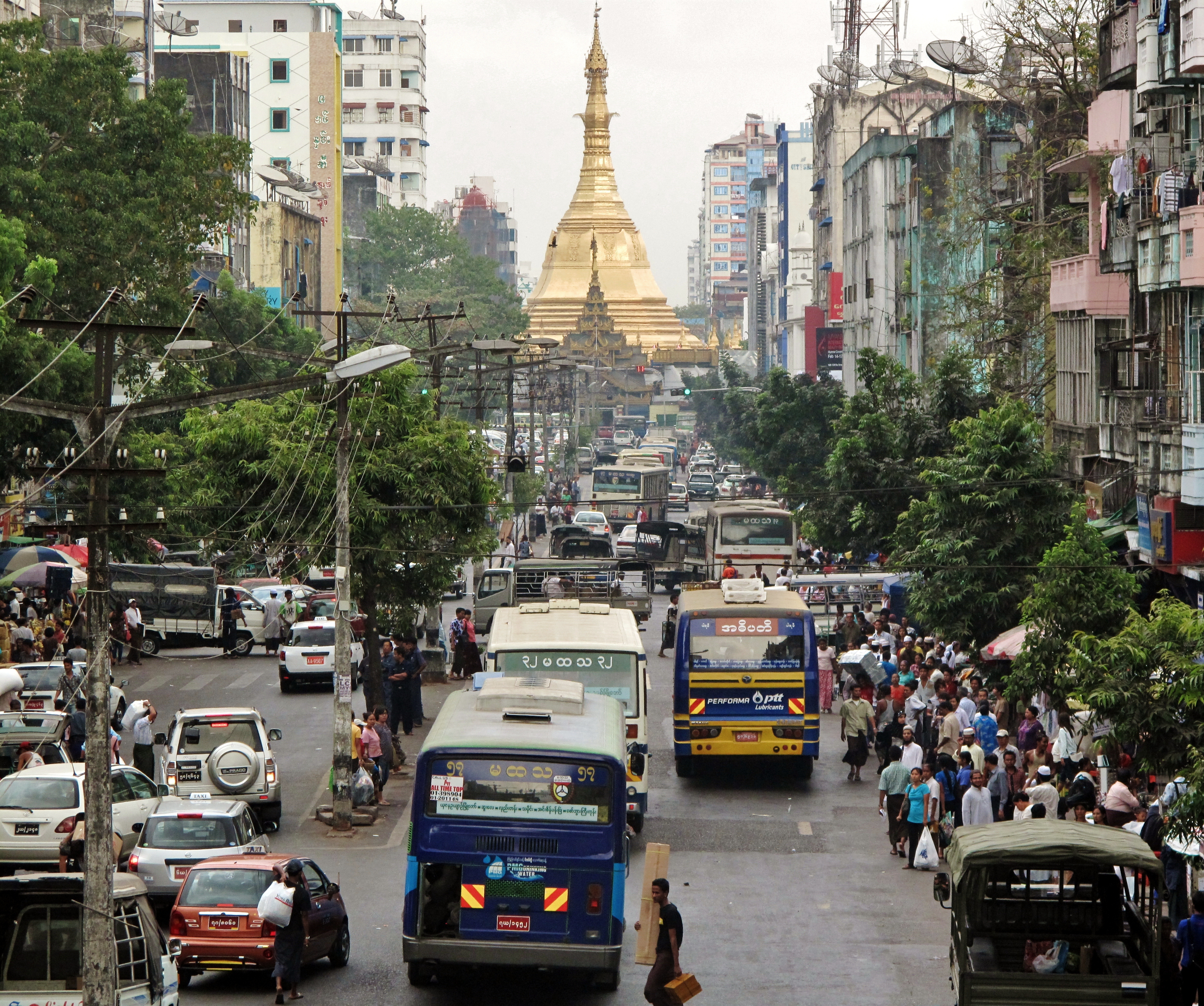 The center of Yangon